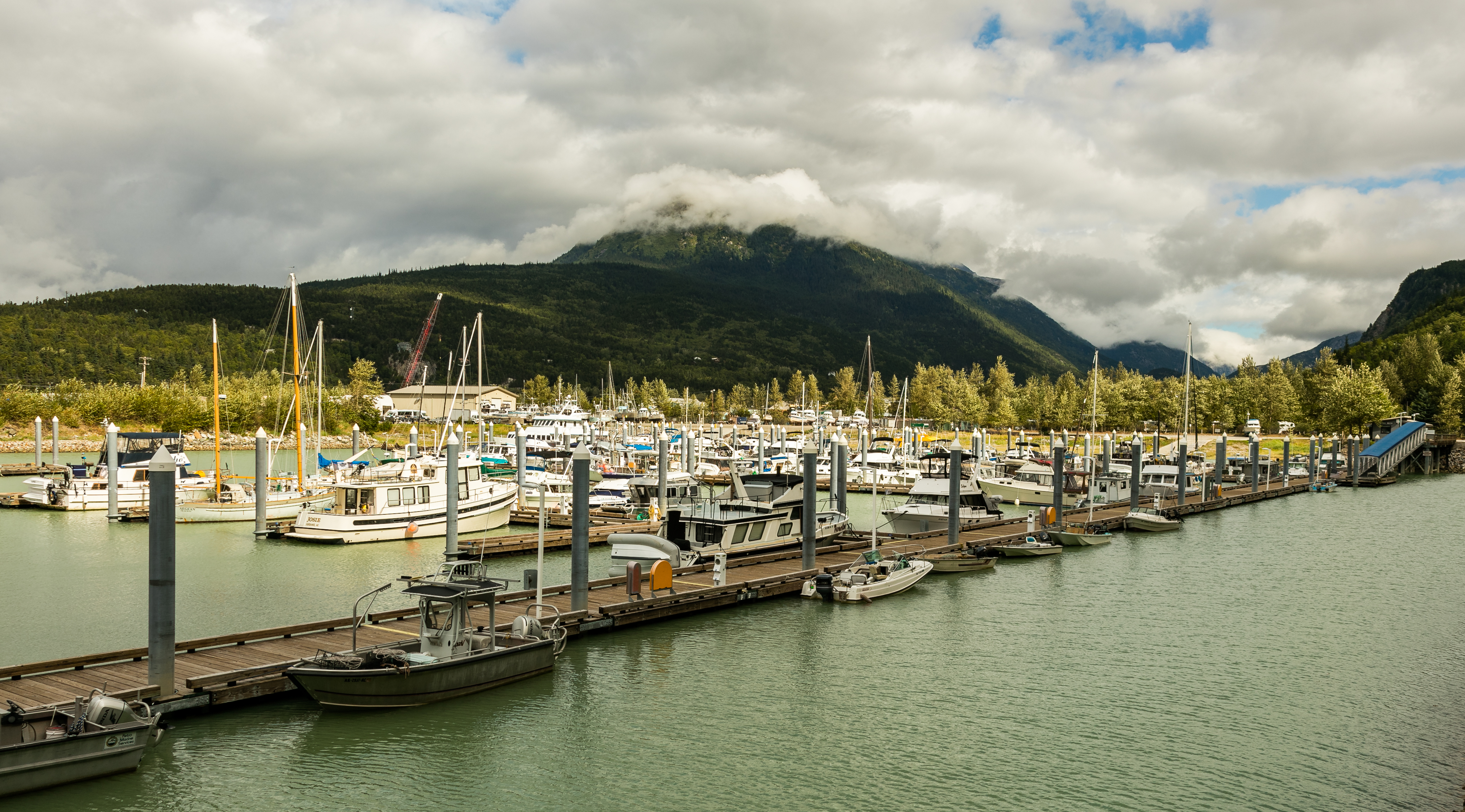 Port of Skagway, Alaska, USA